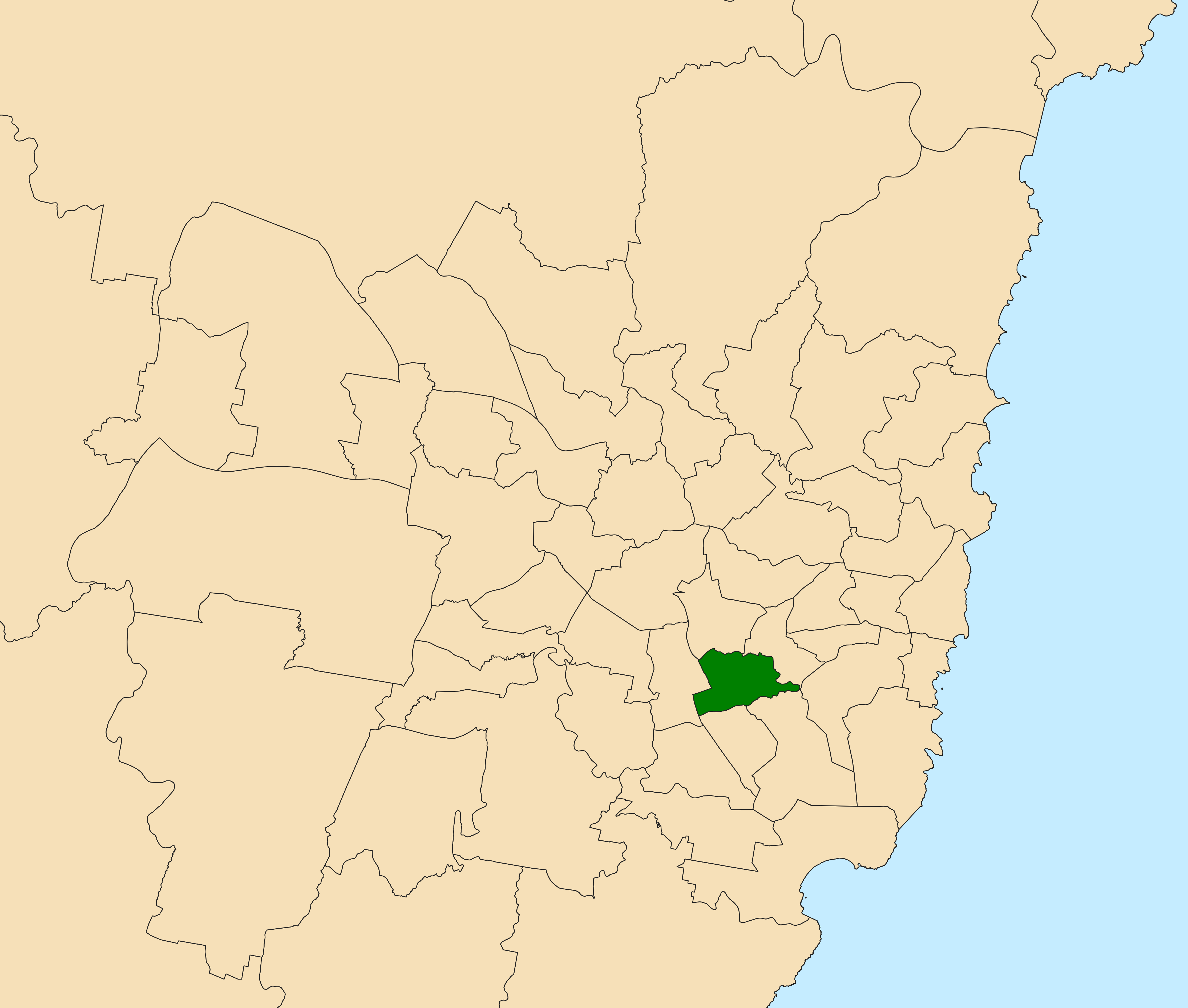 Location of the state electoral district of Canterbury (dark green) in the metropolitan Sydney area as of the 2019 New South Wales state election. Incorporates or developed using Administrative Boundaries ©PSMA Australia Limited licensed by the Commonwealth of Australia under Creative Commons Attribution 4.0 International licence (CC BY 4.0).